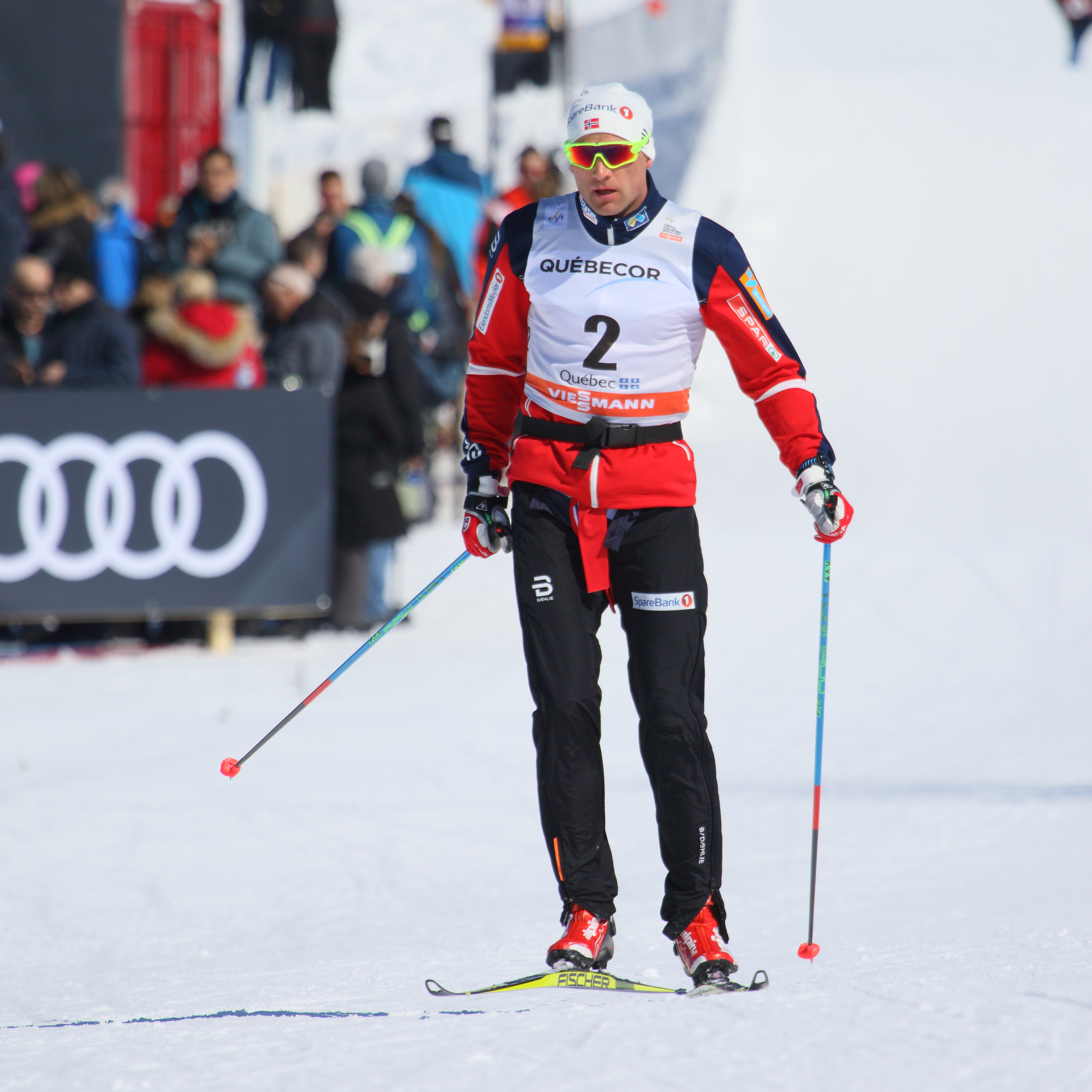 Niklas Dyrhaug, 2017 Ski Tour Canada, Quebec City.